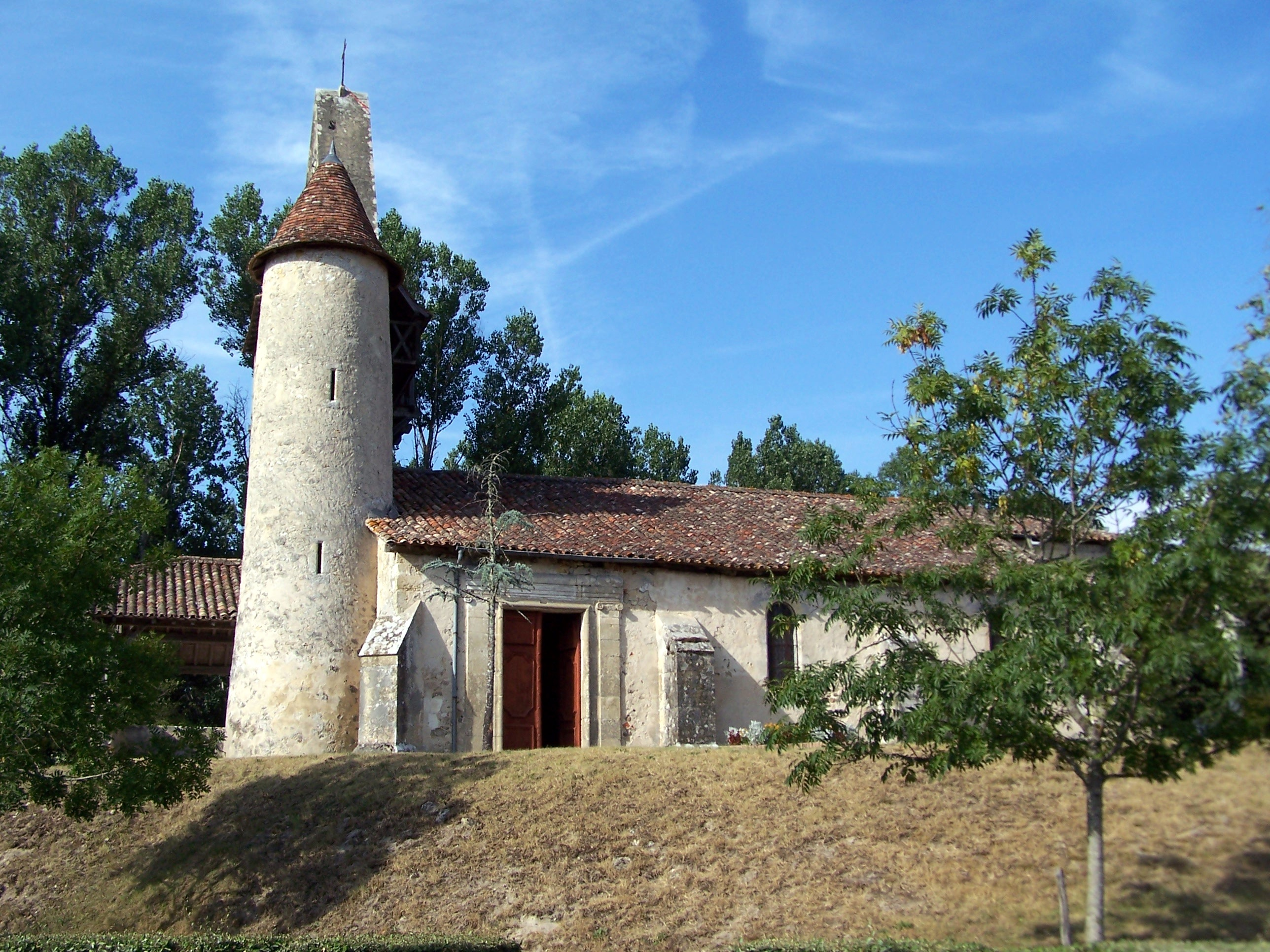 Church Saint-Antoine of Goualade (Gironde, France)